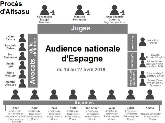 Make-up of the court in the Altsasu incident trial, April 2018